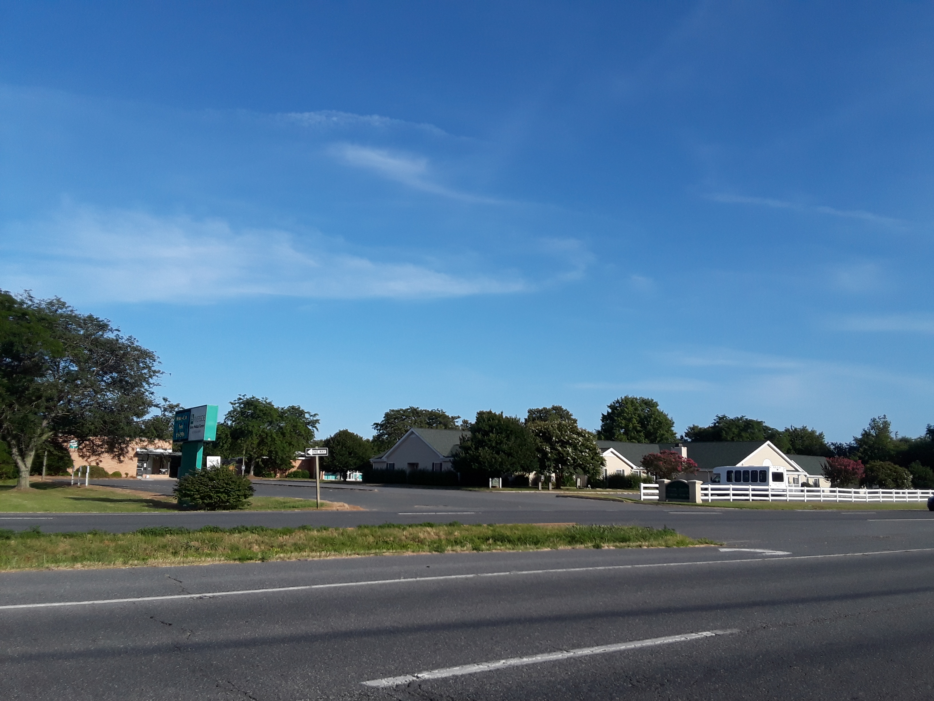 Taken on a visit to the Eastern Shore of Virginia, July 2018